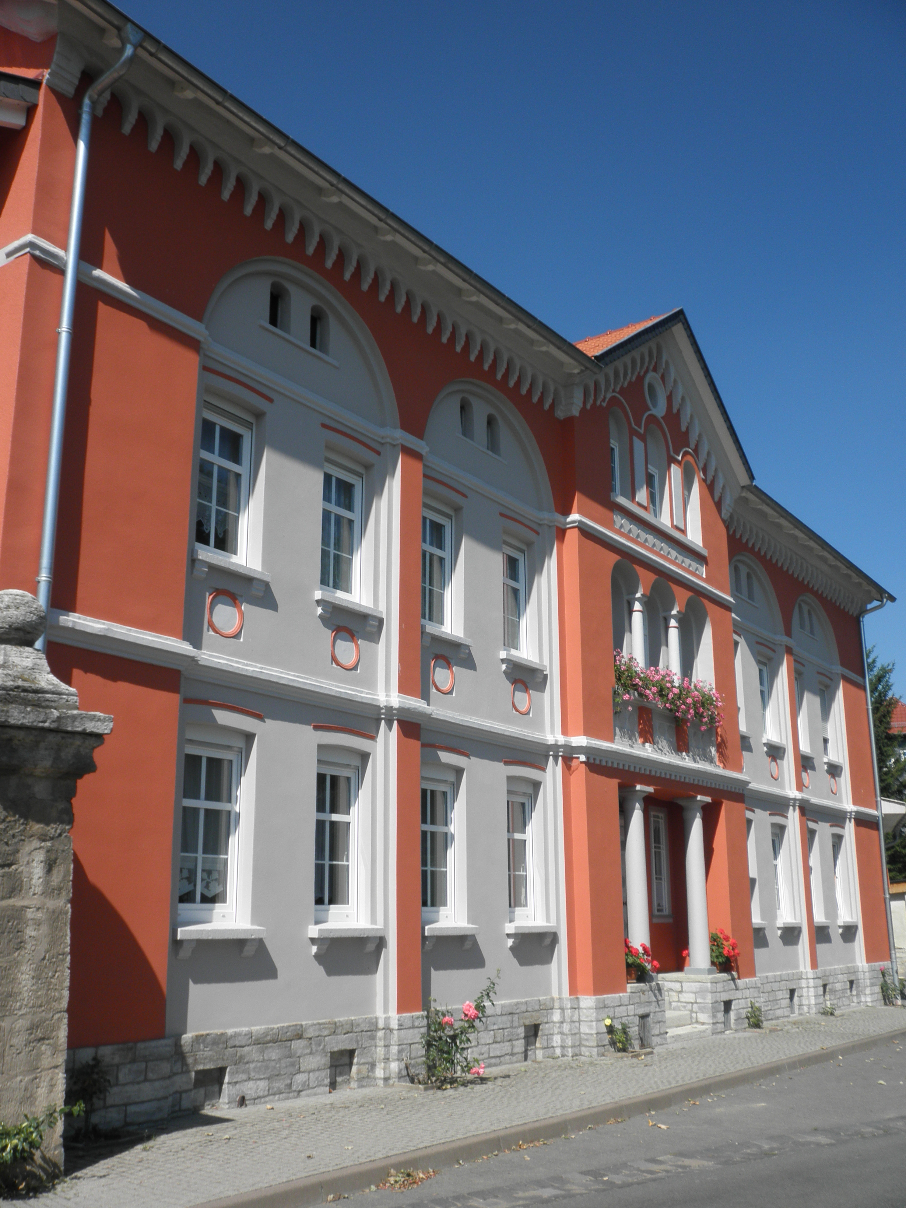 Building in Neunheilingen in Thuringia